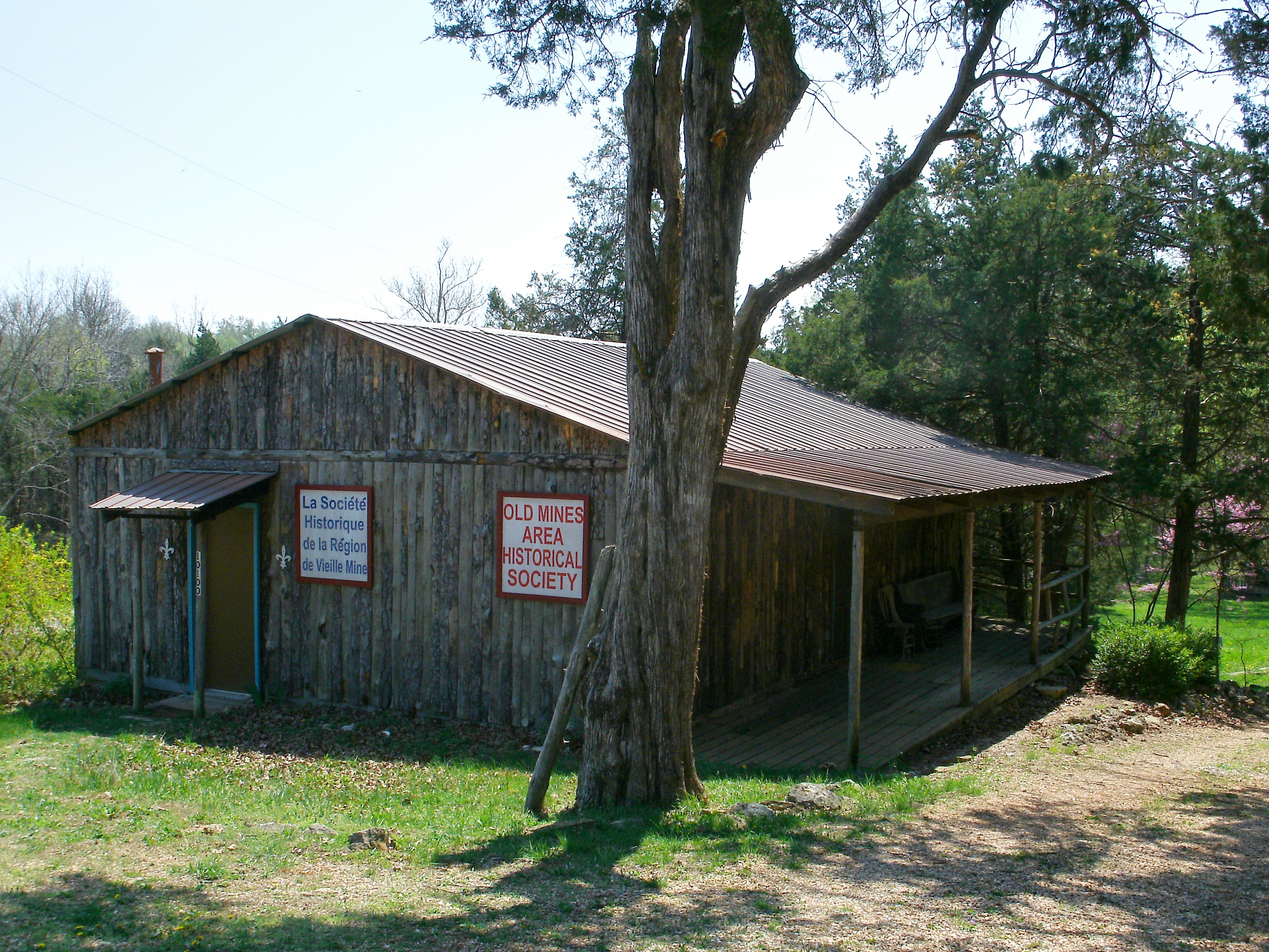 A building of the Old Mines Historical Society in Washington County in Missouri.